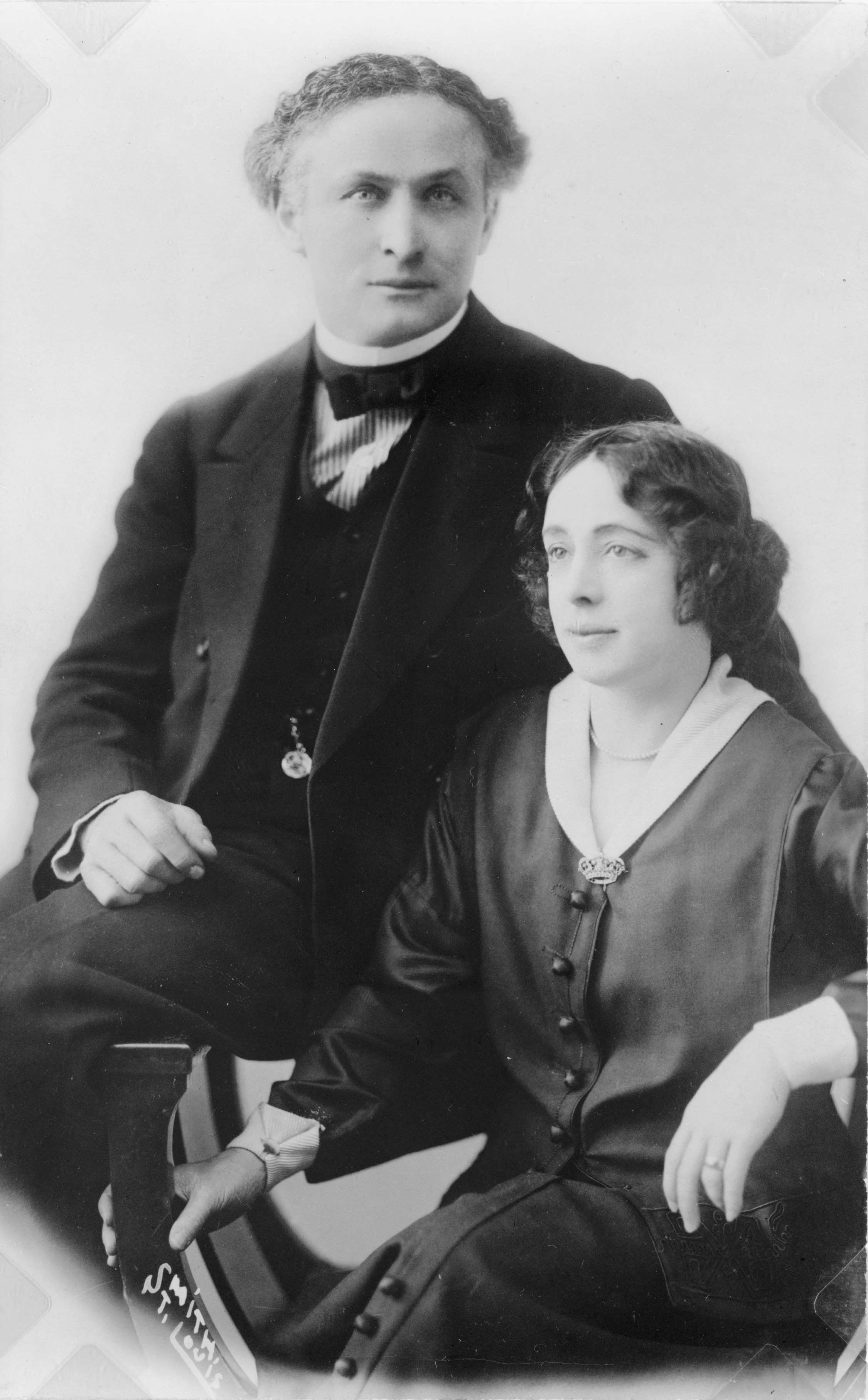 Harry Houdini and his wife Beatrice